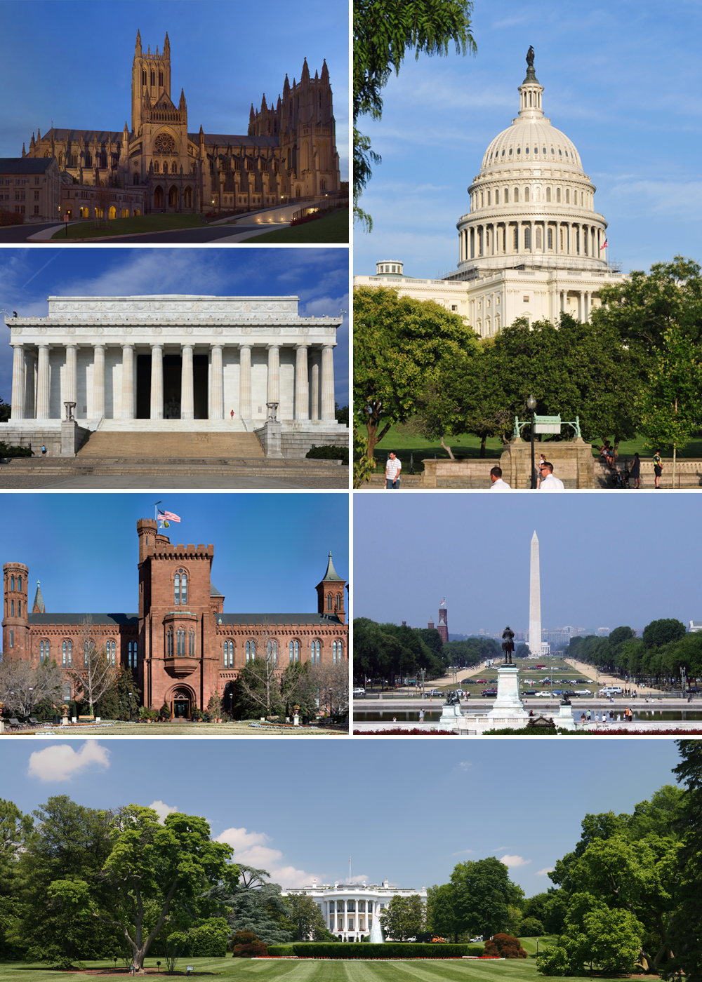 Collage for Washington article